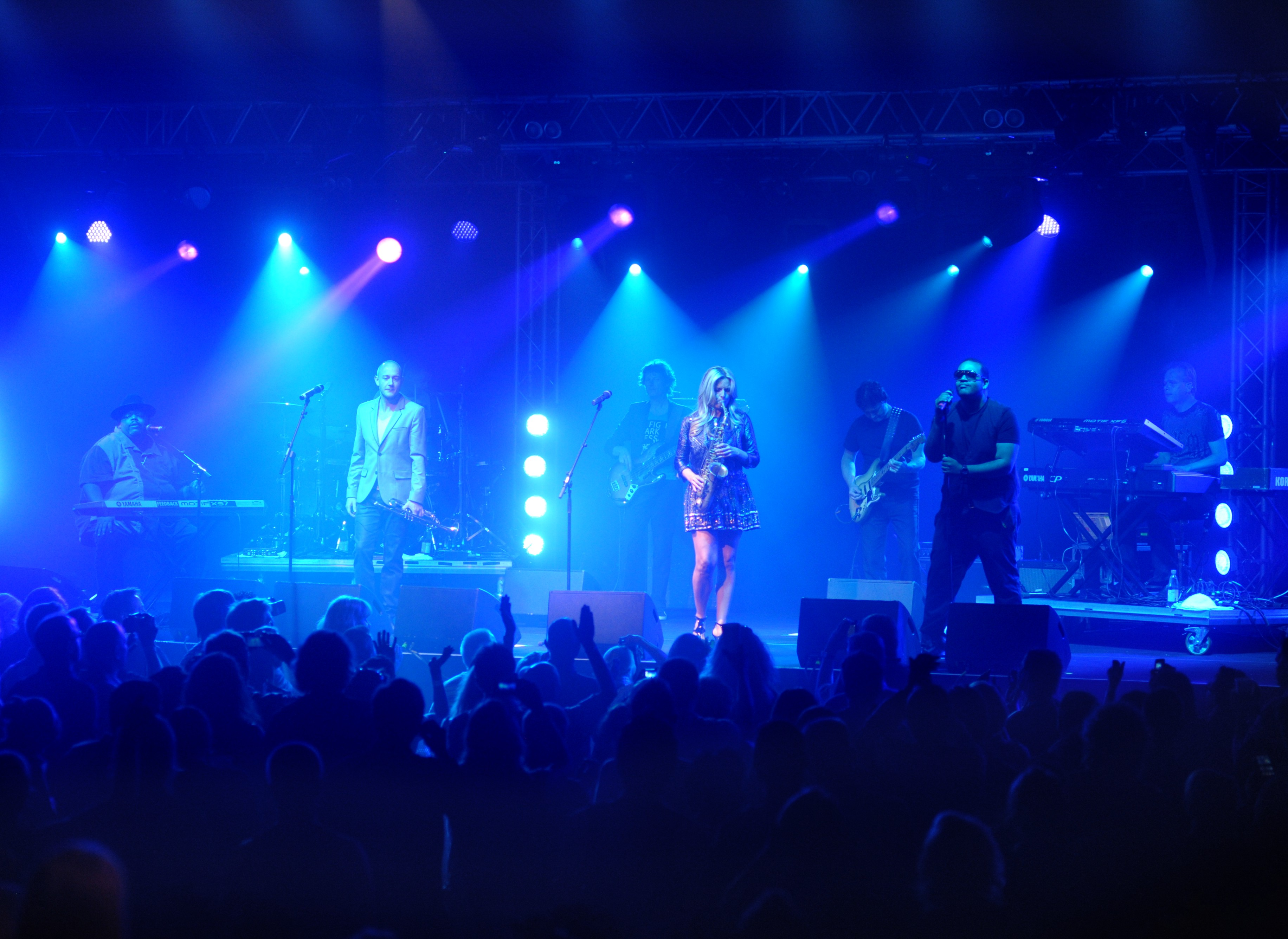 Candy Dulfer in Imatra Big Band Festival 2012, Finland